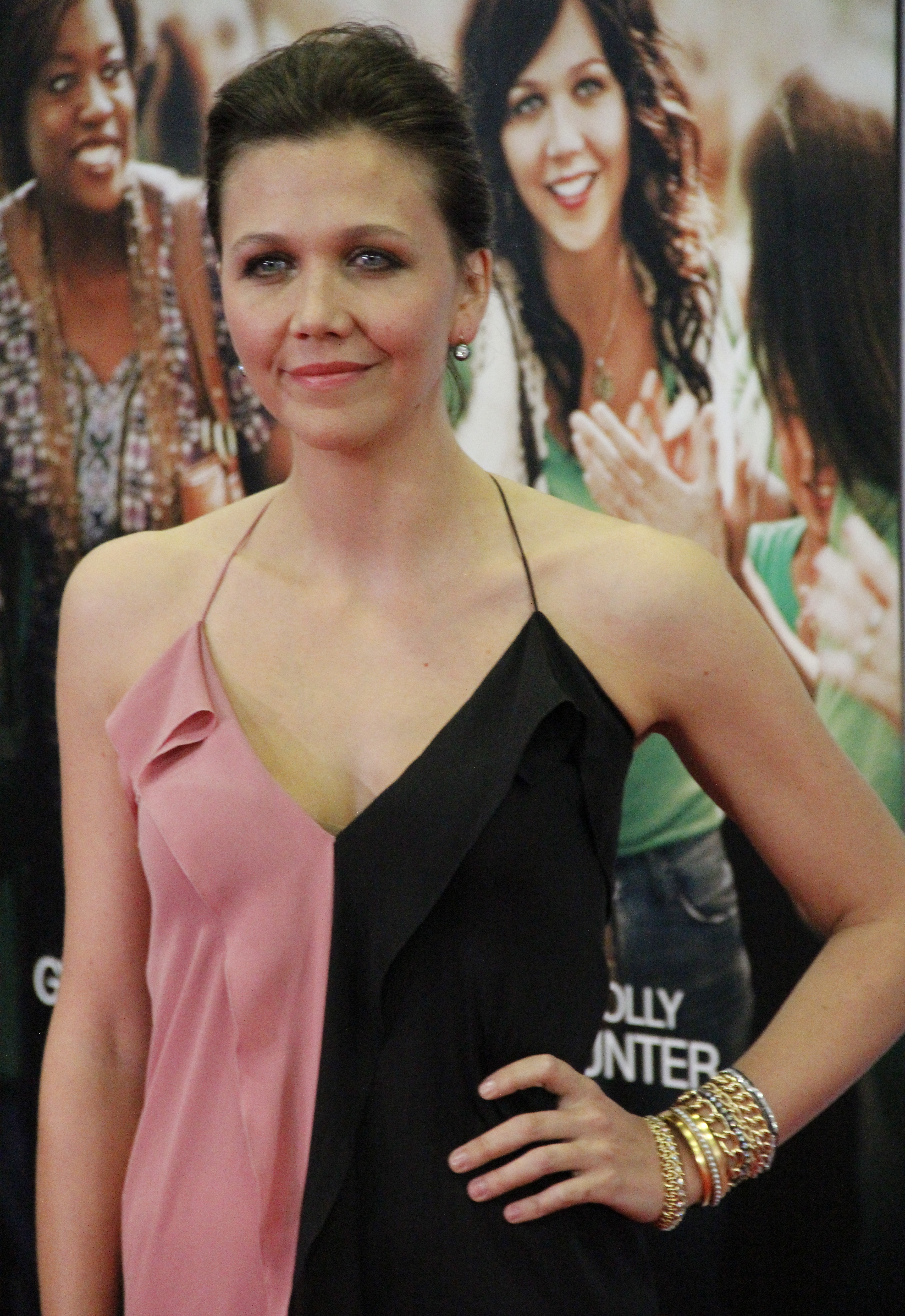 Maggie Gyllenhaal at the Won't Back Down NYC Premiere, Ziegfeld Theater in 2012.